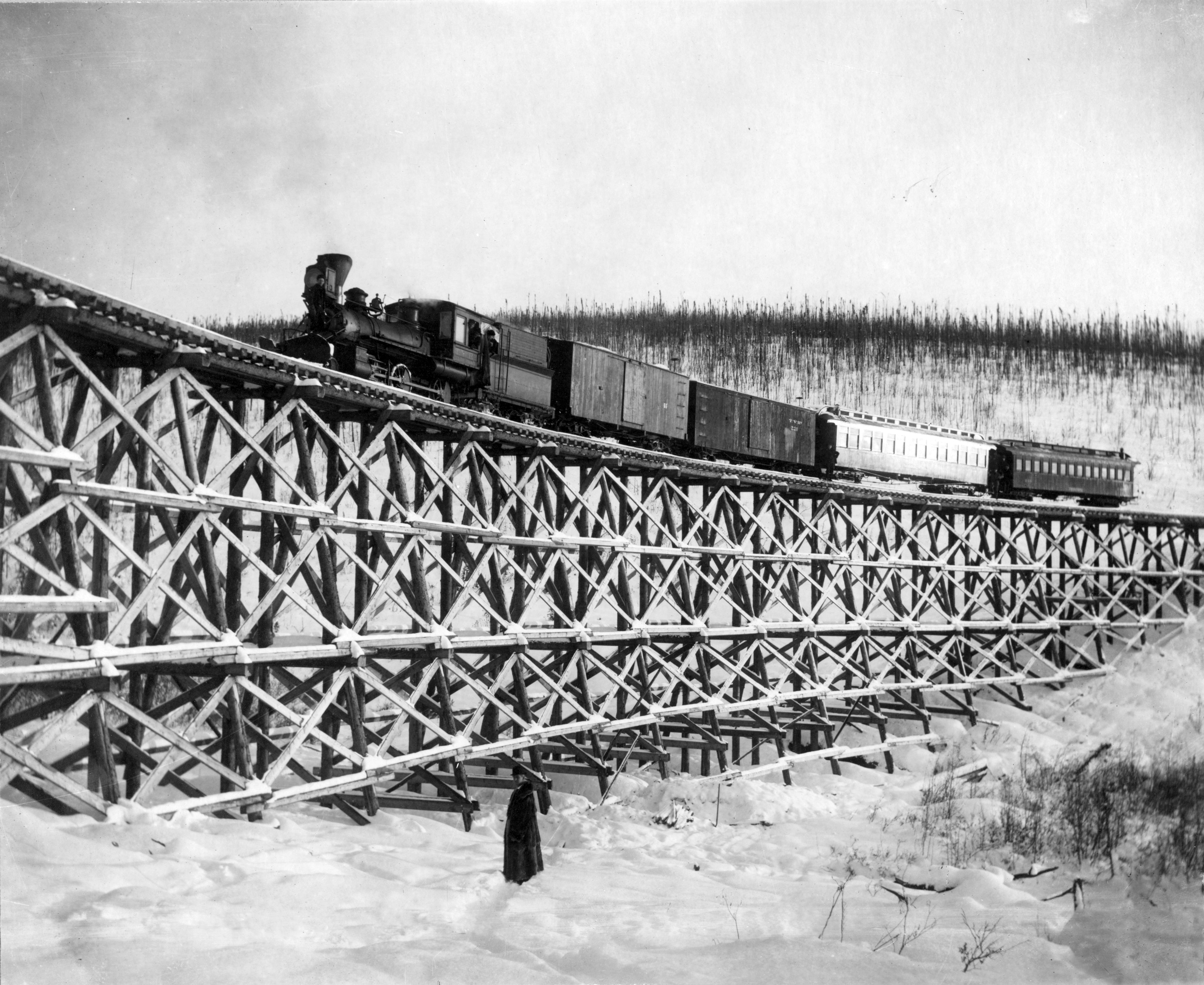 Train of the Tanana Valley Railroad, Alaska, crossing a trestle bridge at the head of Fox Gulch. Image converted from source TIFF to JPG for Wikimedia Commons.